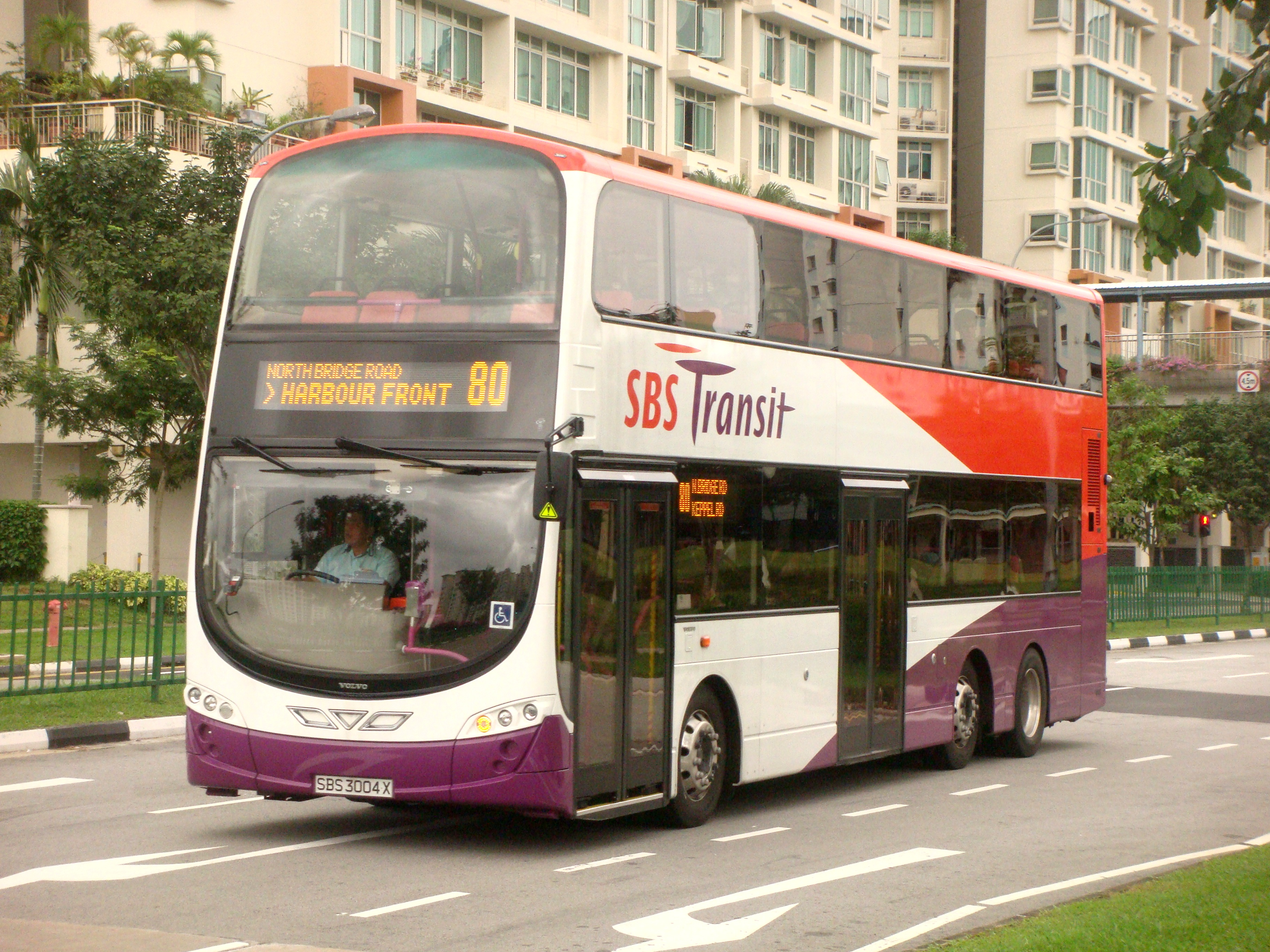 SBS Transit Wright Eclipse Gemini 2 Euro 5 bodied Volvo B9TL (Batch Three, SBS3004X, 12m, built 2011) at Sengkang, Singapore.